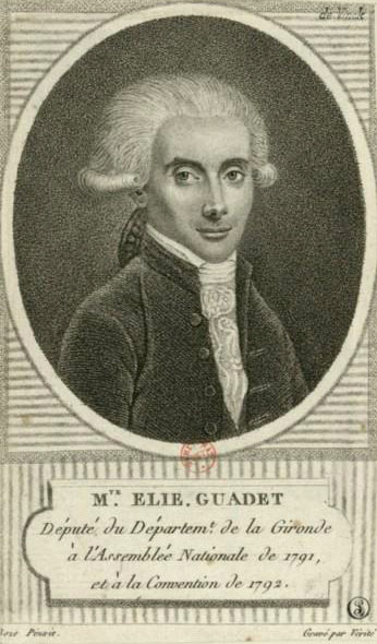 Portrait of Elie Guadet